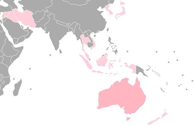 Shows teams of en:1974 FIFA World Cup qualificationAsia on a world map